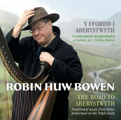 Artwork for the Album Y Ffordd I Aberystwyth / The Road To Aberystwyth by Robin Huw Bowen